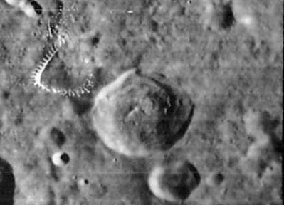 Rothmann lunar crater - image LOIV 084 H1